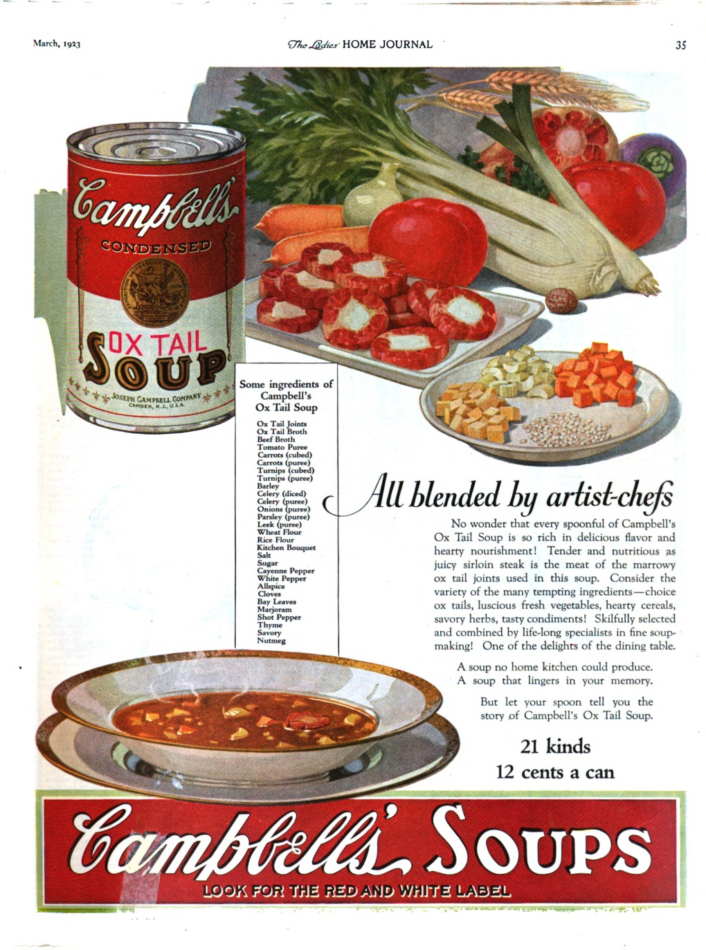 Ladies Home Journal ad for Campbell's Ox Tail soup.